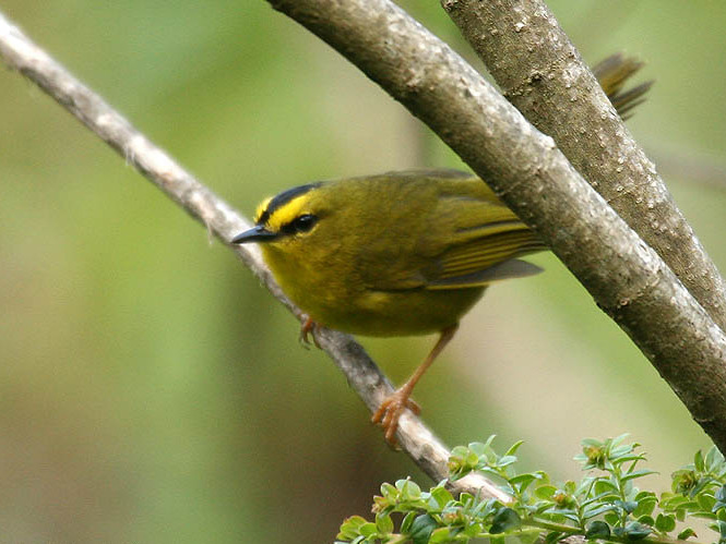 Black-crested Warbler Basileuterus nigrocristatus. Near Yanacocha, Ecuador. 3/8/2007